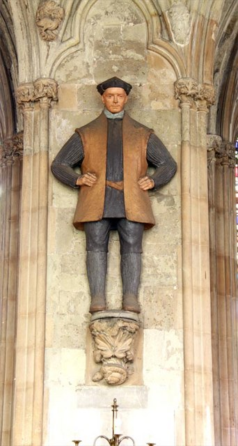 St Etheldreda, Ely Place, London EC1 - Nave statue Blessed John Roche